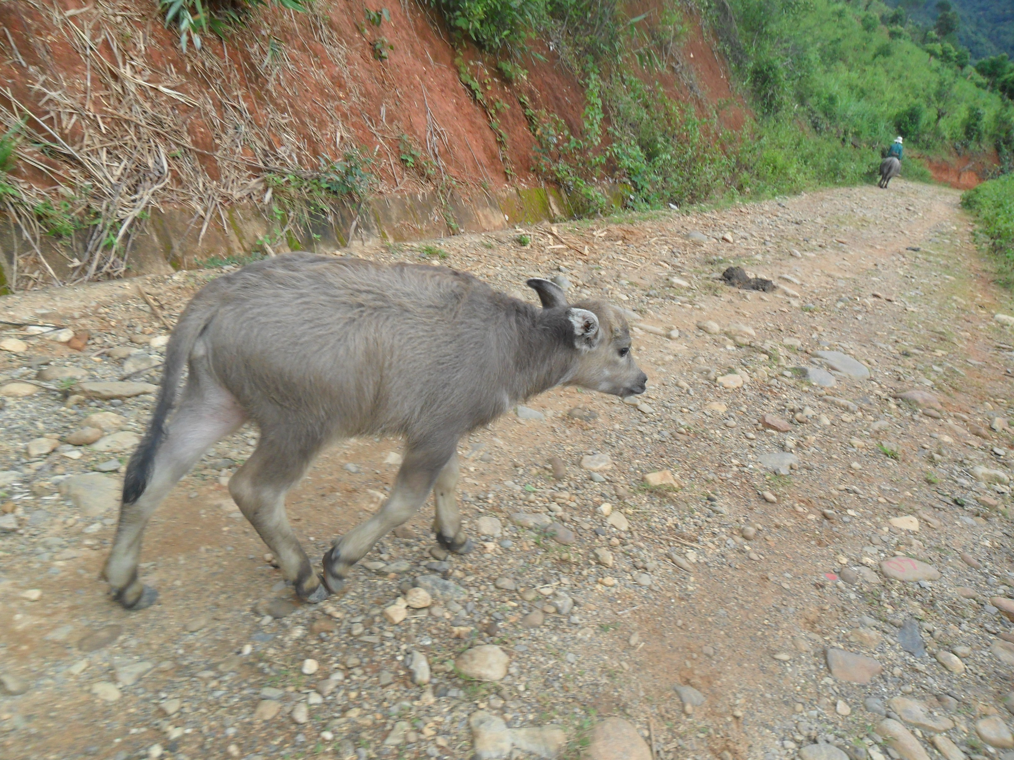 A water buffalo calf on the street at Đăk Glei, Kon Tum Province, Vietnam.